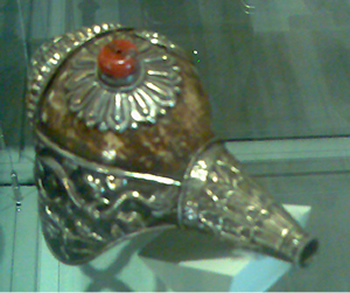 Image of the Dung-Dkar on display at the Queensland Museum, Australia.